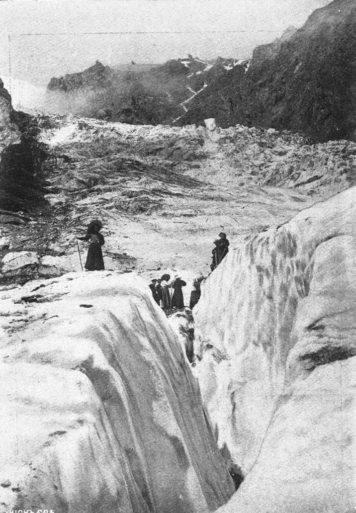 Devdorak glacier. From the Caucasus guidebook of 1913